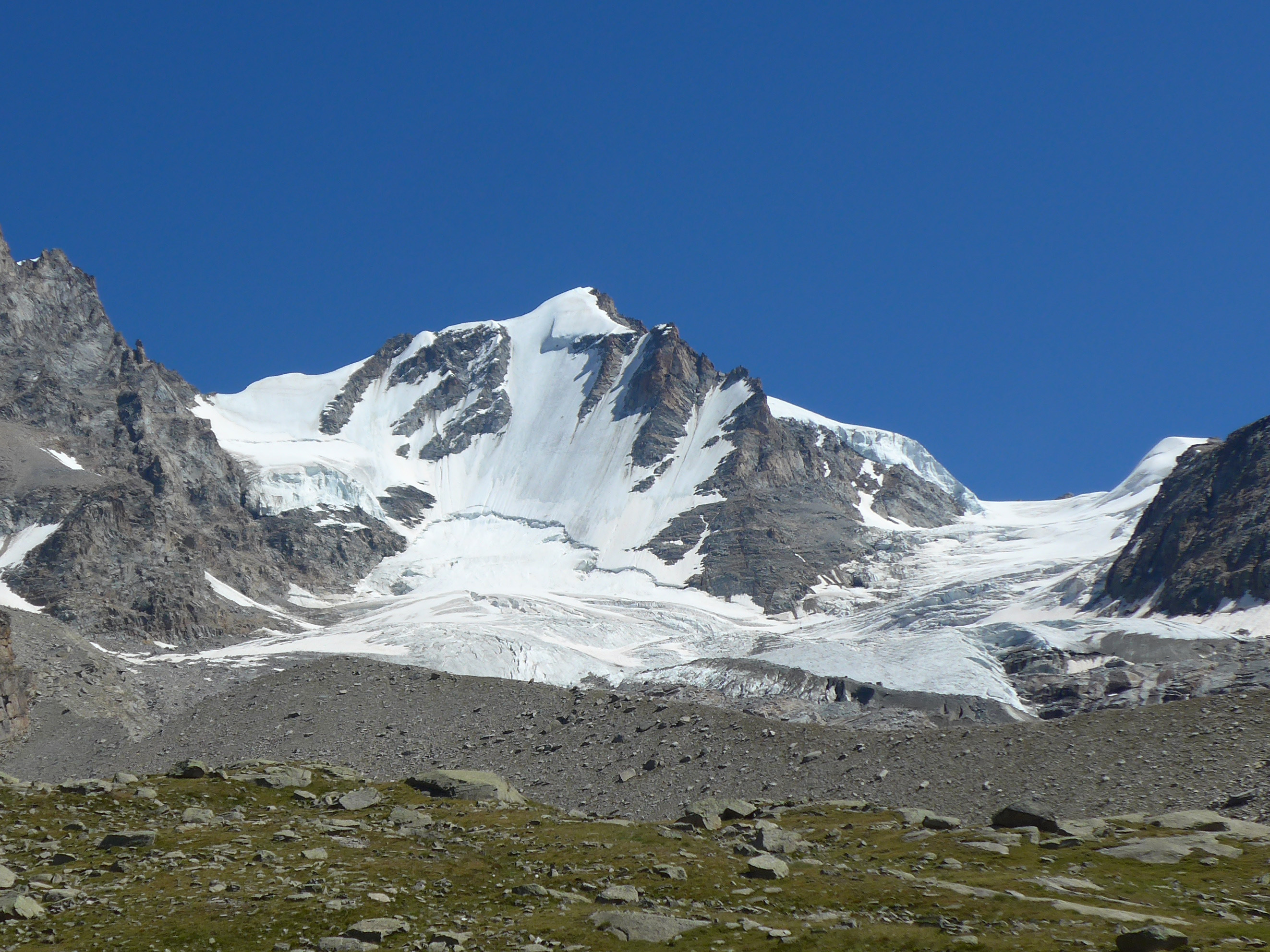 Gran Paradiso from northwest, from ascent to Rifugio Chabod